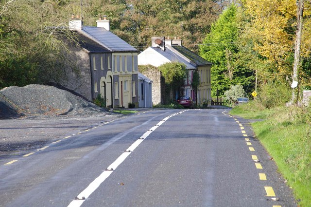 Rockmills R512 road, near to Rockmills, Carrigdownane and Derryvillane, Cork, Ireland. The R512 passes through Rockmills. View taken heading North.